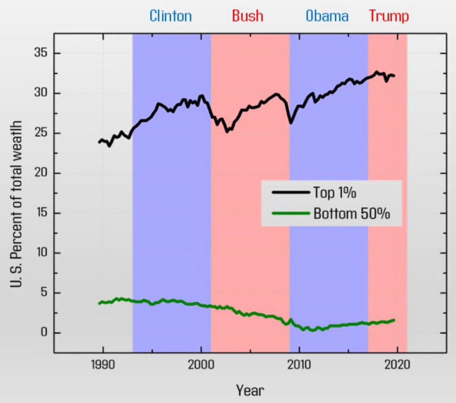 Distribution of household wealth for the Top 1% and Bottom 50% in the U.S. since 1989 from the Federal Reserve (Wealth by wealth percentile group (Shares (%))). Colored regions indicate the presidencies of Bill Clinton, George W. Bush, Barack Obama, and Donald Trump.